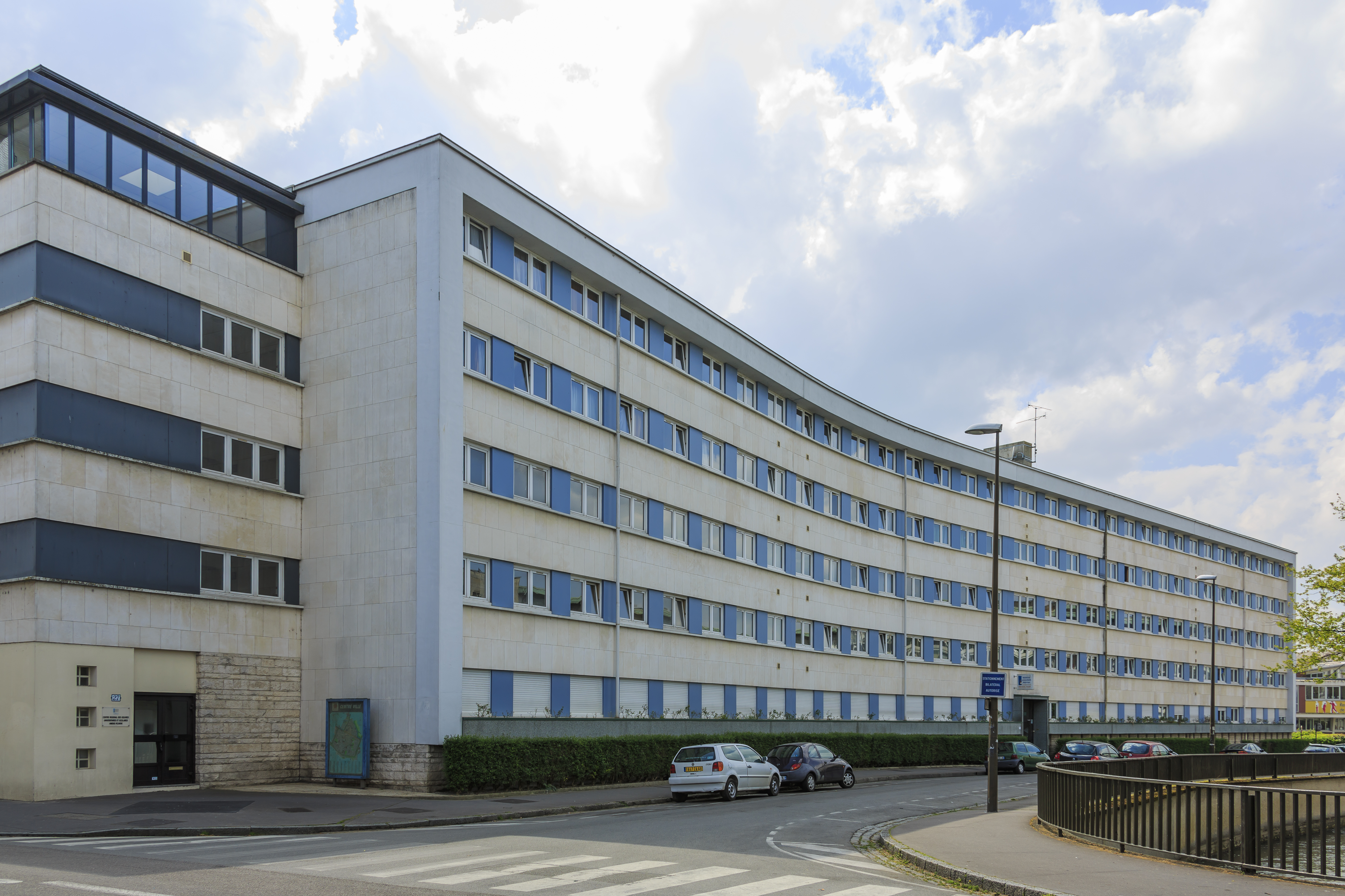 Amiens, France: CROUS - Centre Régional des Œuvres Universitaires et Scolaires